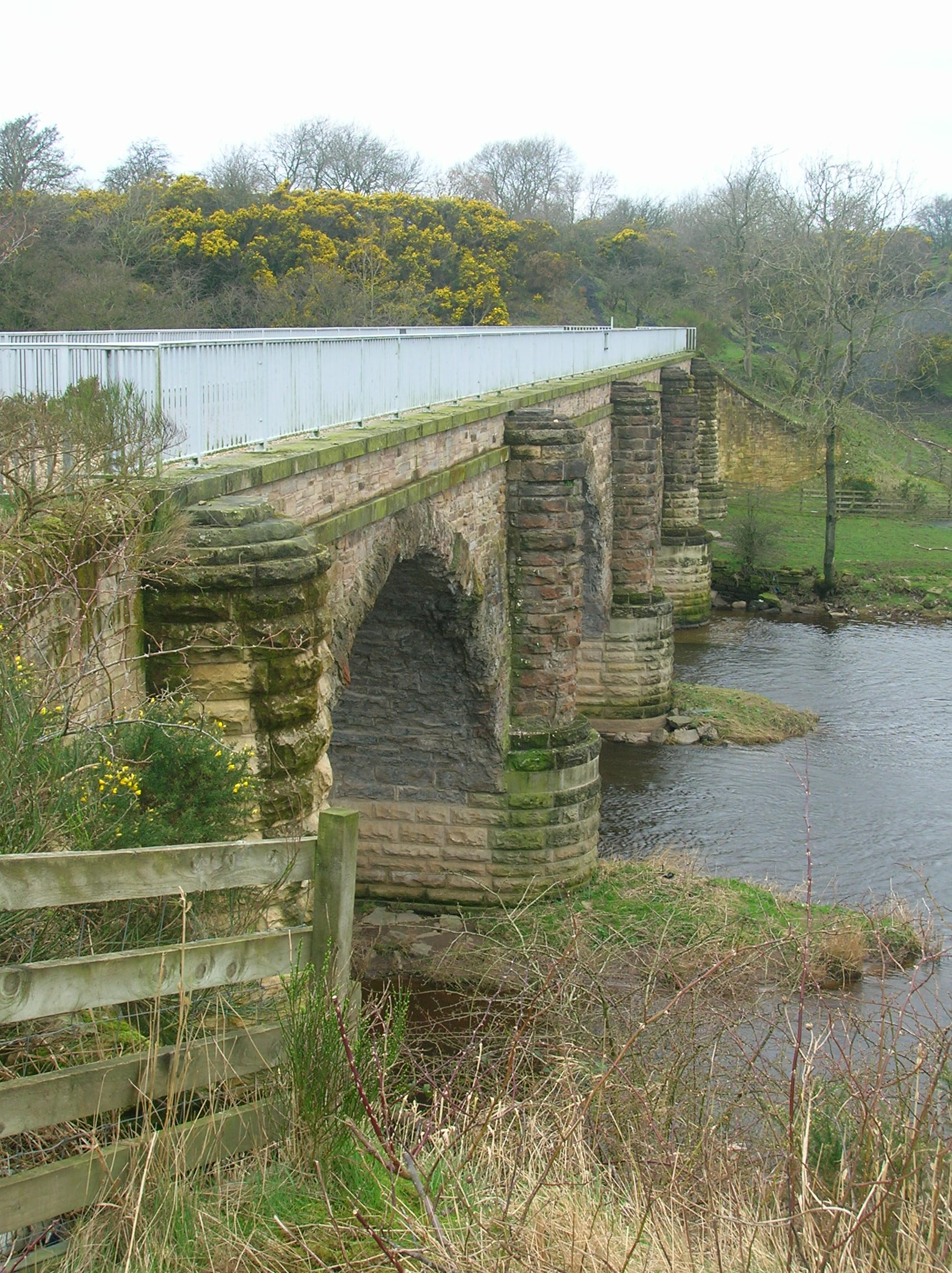 Laigh Milton viaduct, North Ayrshire, Scotland. One of the World's oldest railway viaducts. 2007.